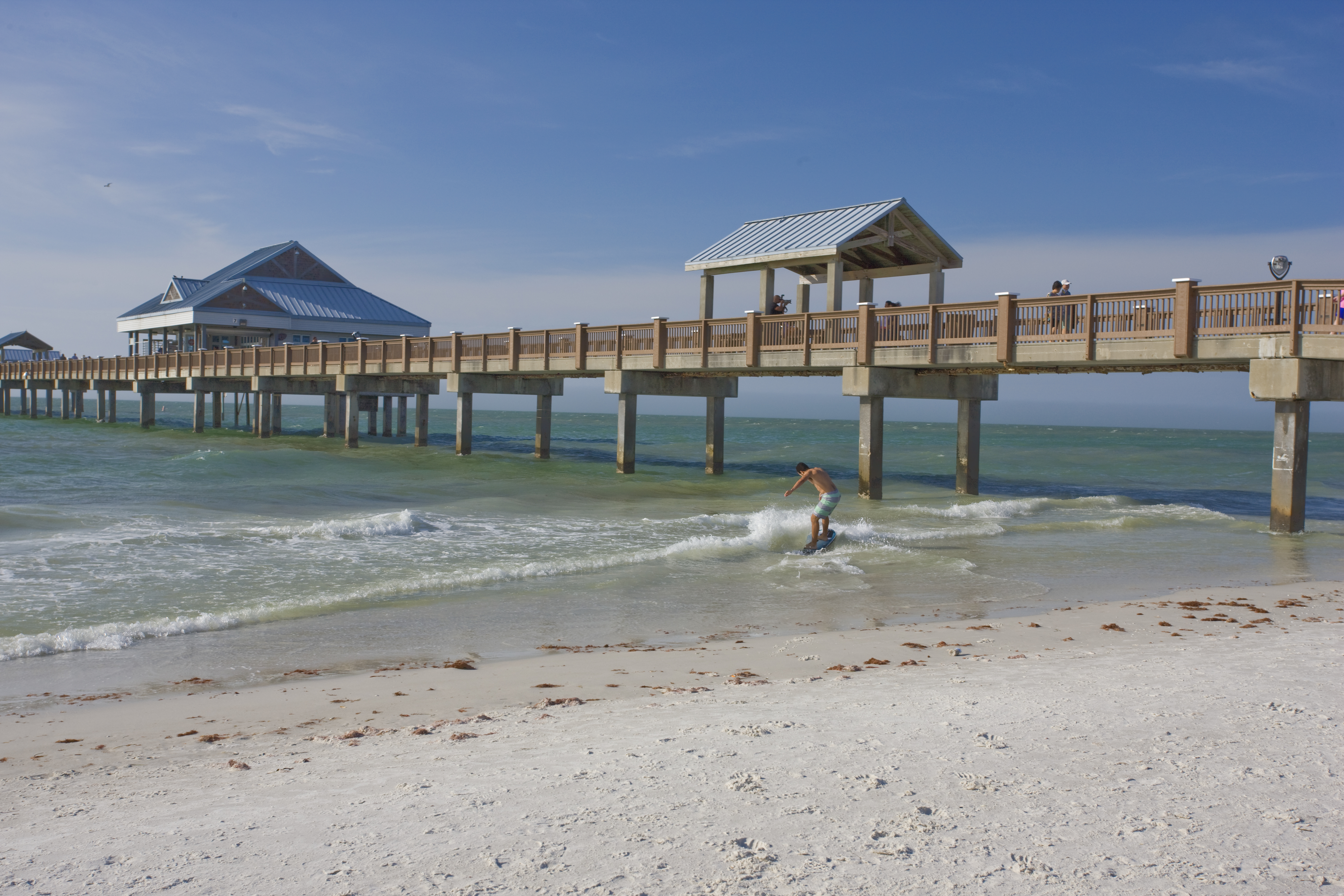 Clearwater Beach includes a resort area and a residential area on the Gulf of Mexico in Pinellas County on the west central coast of Florida. Just west over the intercoastal waterway by way of the Clearwater Memorial Causeway from the City of Clearwater, Florida.